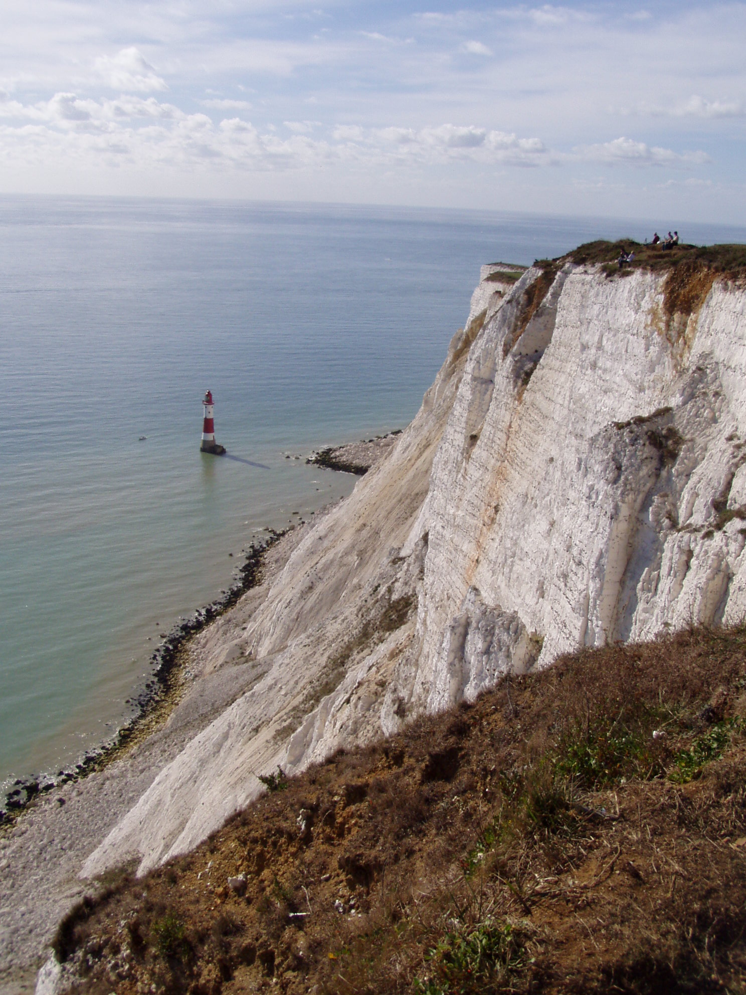 Beachy Head Lighthouse under the cliff, near Eastbourne (England)